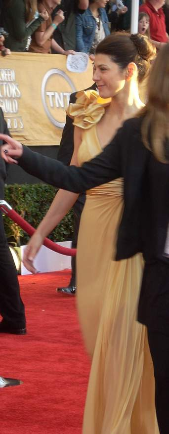 Actress Marisa Tomei, nominated for "The Wrestler", at the 15th Screen Actors Guild Awards